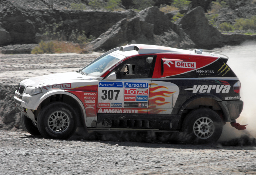 Krzysztof Hołowczyc and his co-driver Jean-Marc Fortin in a BMW X3 cc in the 2011 Dakar Rally.Original description from flickr: BMW X3 cc